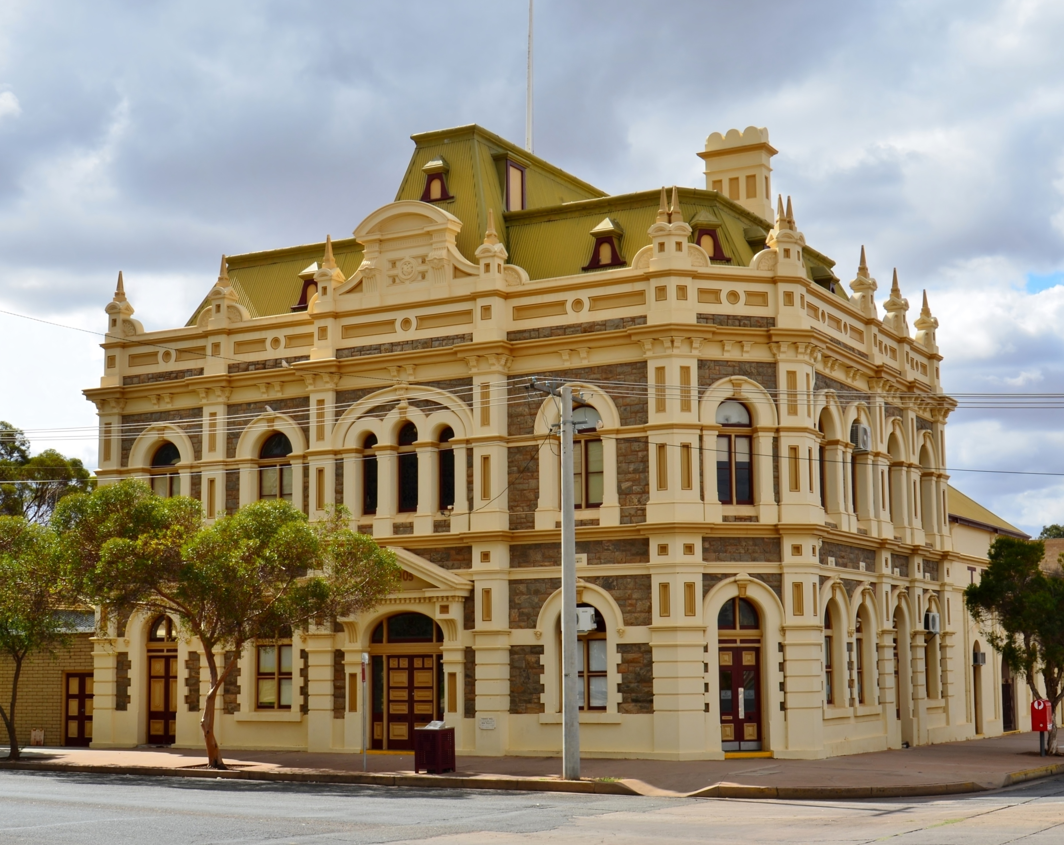 View of Trades Hall, 242 Blende Street, Broken Hill, New South Wales